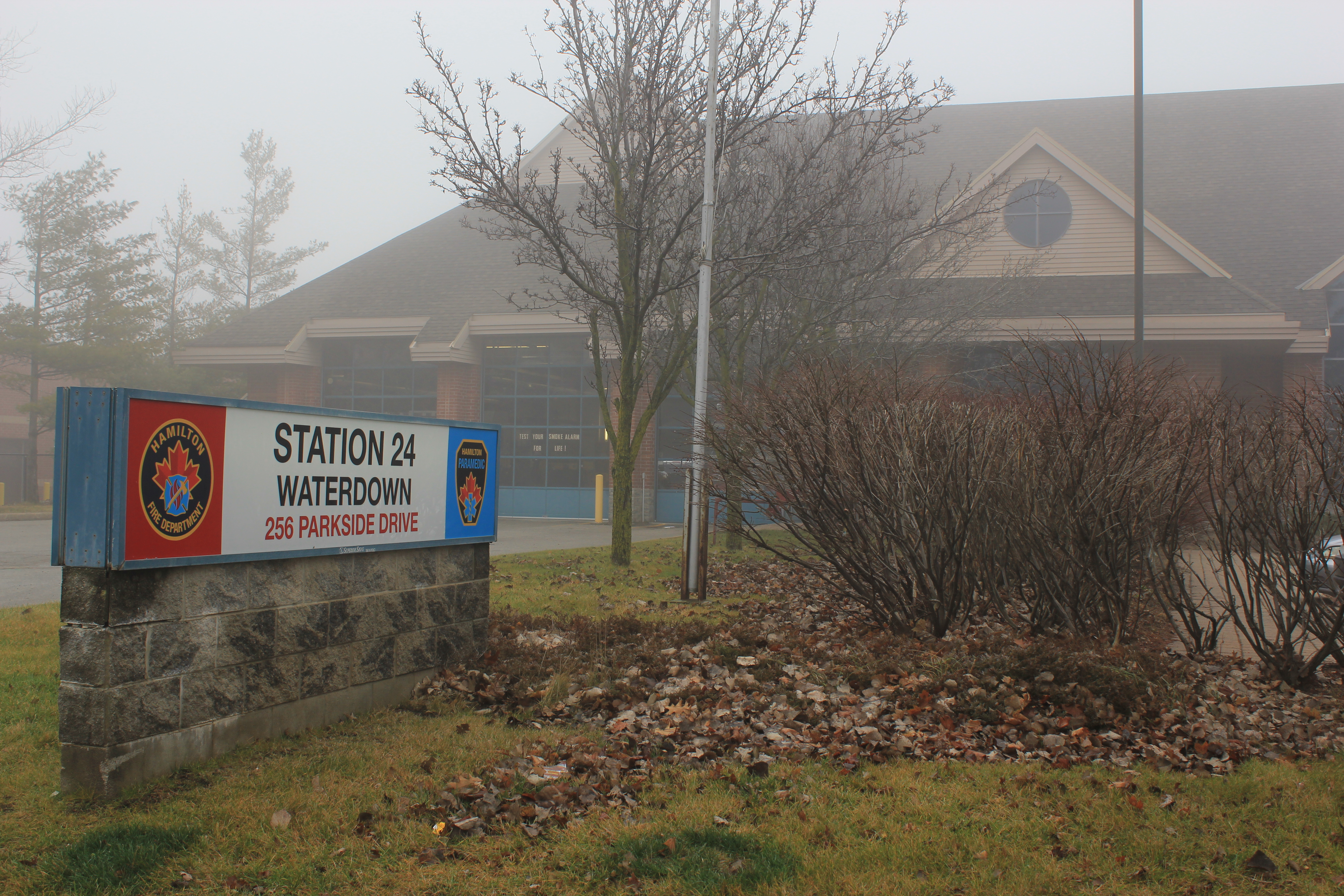 Waterdown (Ontario, Canada) Fire Station, December 2015